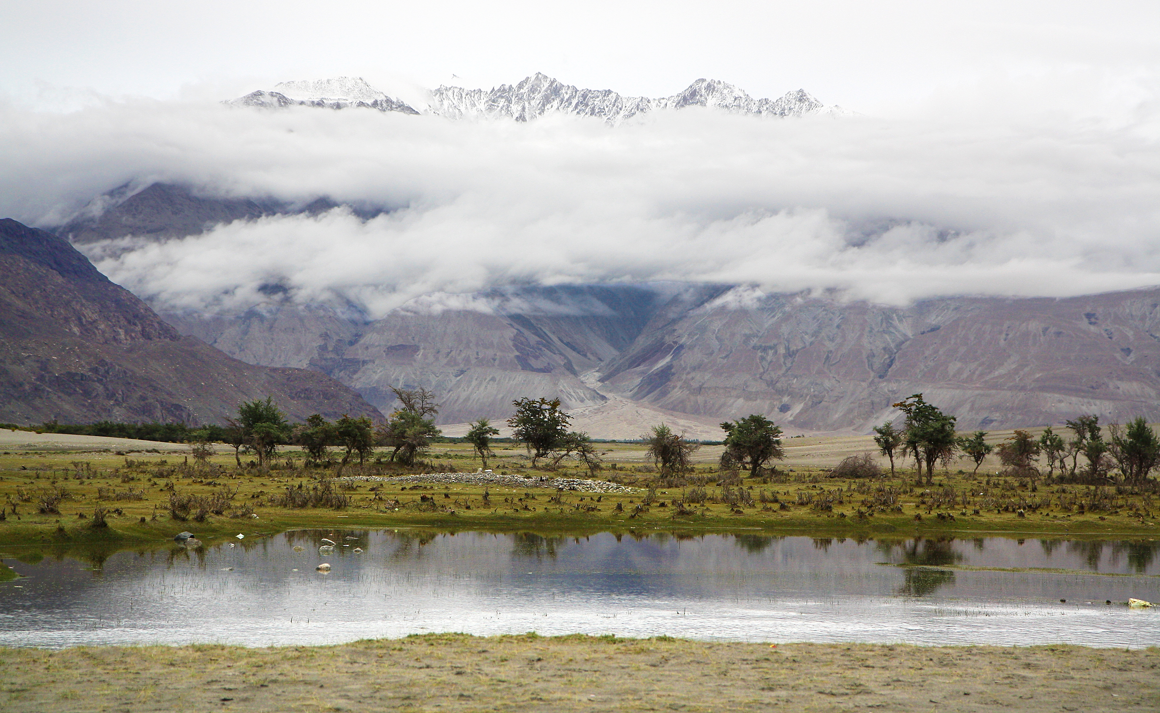 The view at Hunder situated in Nubra valley in Ladakh, Jammu and Kashmir. The sand dunes alongside the Shyok river are home to the endangered Bactrian camels.